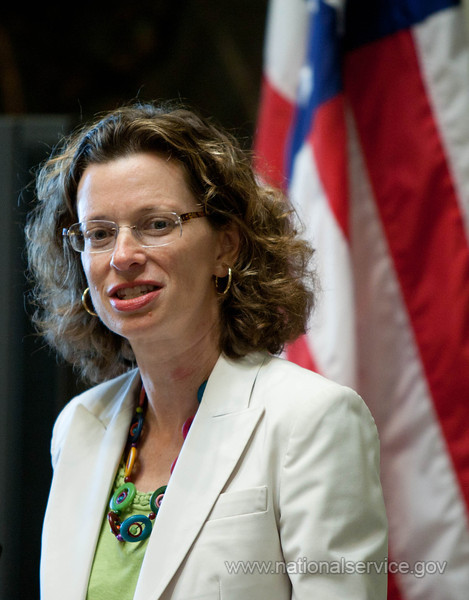 CEO of Points of Light, Michelle Nunn. White House Convening on Expanding Opportunity Through Volunteering held in the Indian Treaty Room, Eisenhower Executive Office Building on Thursday April 19, 2012. Corporation of National and Community Service Photo.